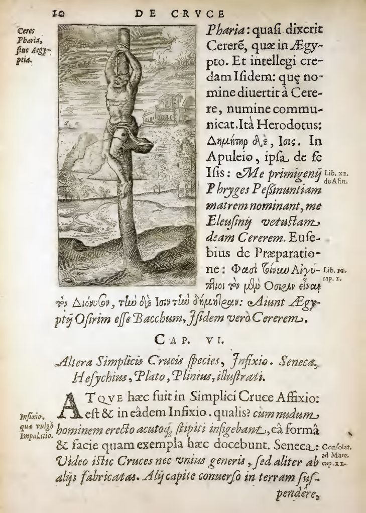 "Crux simplex", a simple wooden torture stake, according to the classic Greek word "stavros" ("σταυρός"), by Justus Lipsius (1547-1606), De Cruce, Libri Tres, Adwerp, 1594, p. 10.